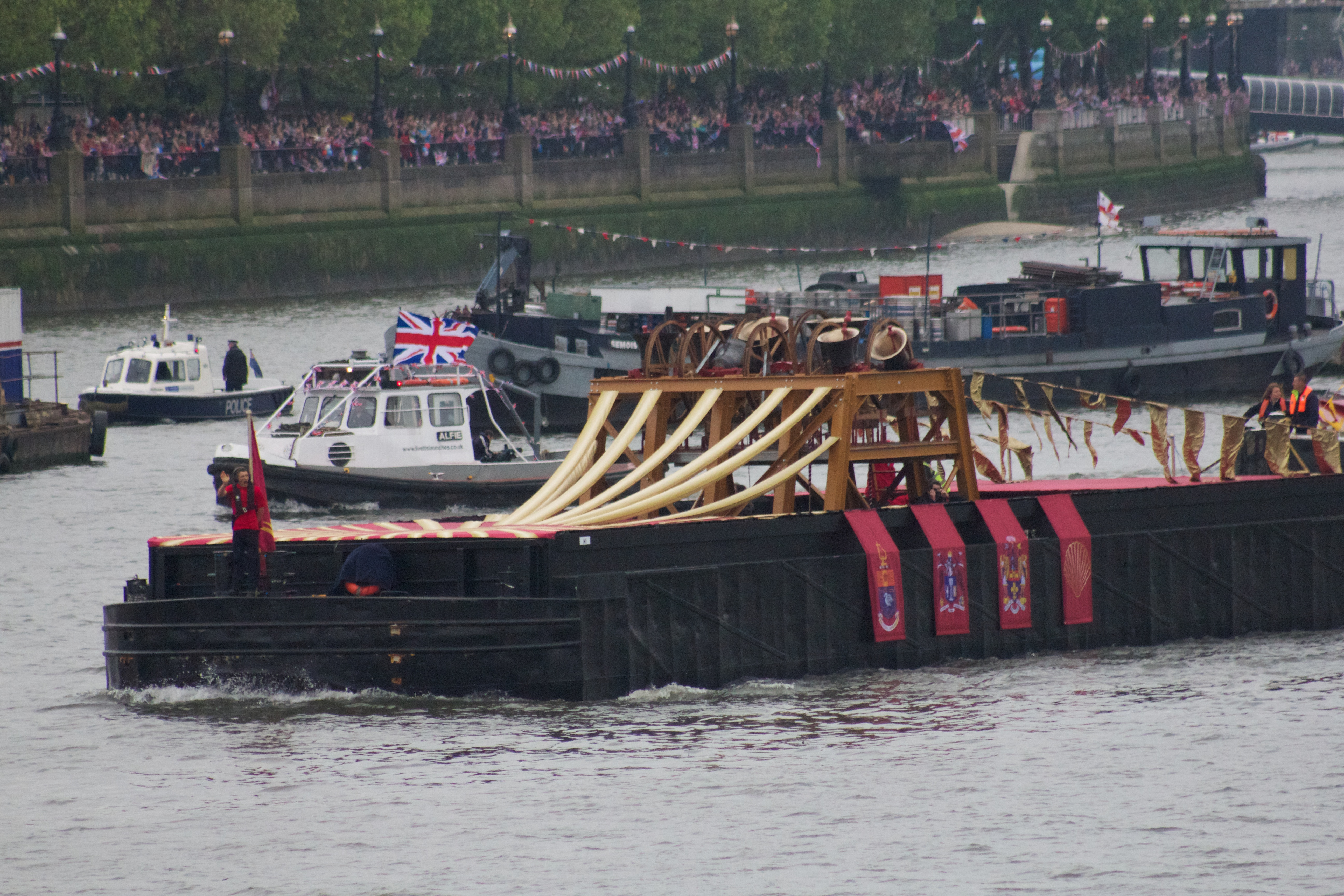 The Royal Jubilee Bells on Ursula Katherine/Steven B